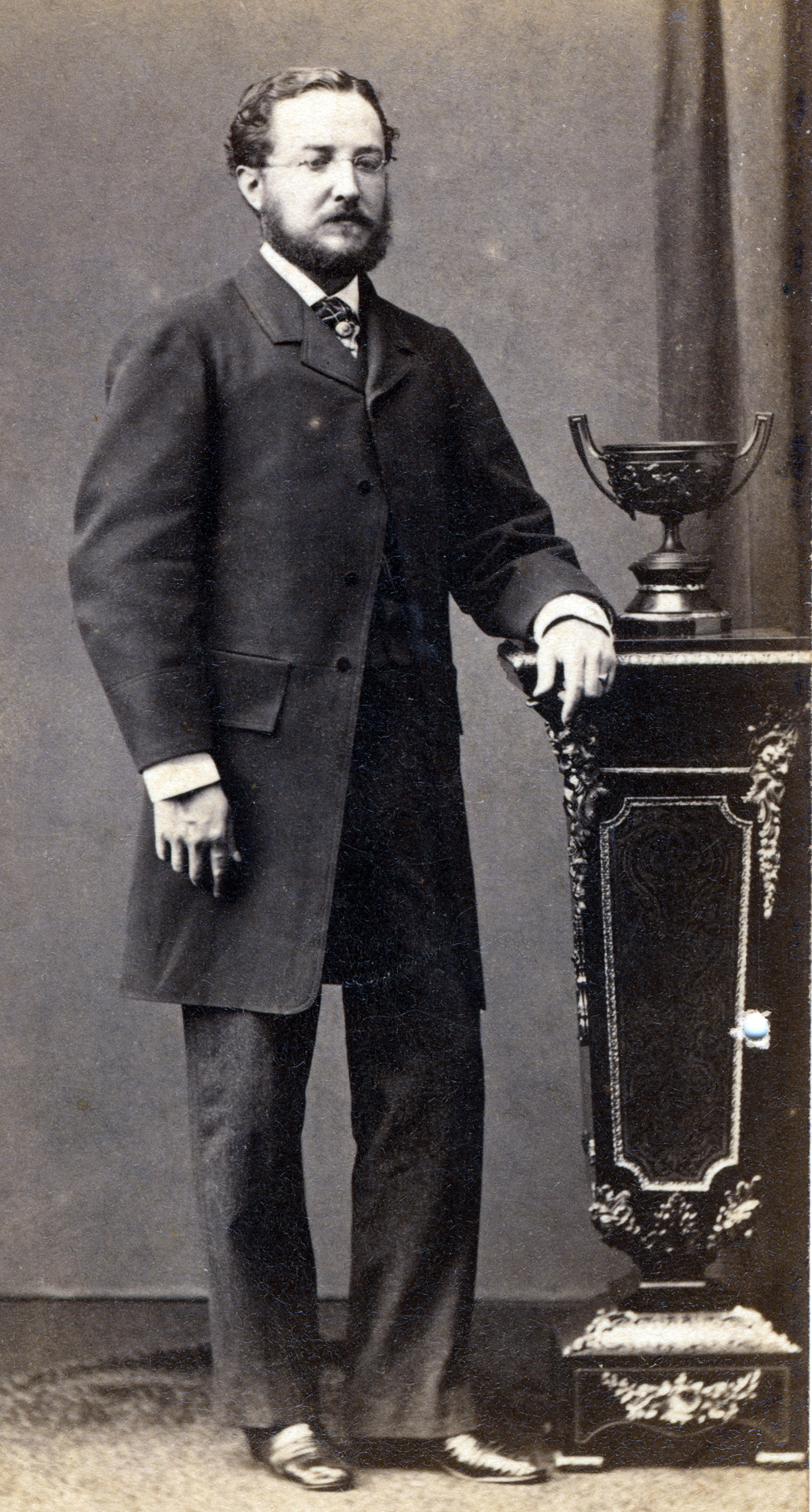 Juan León y Castillo in 1860, Spanish engineer from Gran Canaria (Canary Islands).